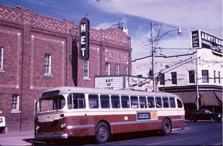 Stage and movie theatre and department store on Broad Street, Regina, both now long demolished, with a CCF-Brill trolleybus in the foreground.